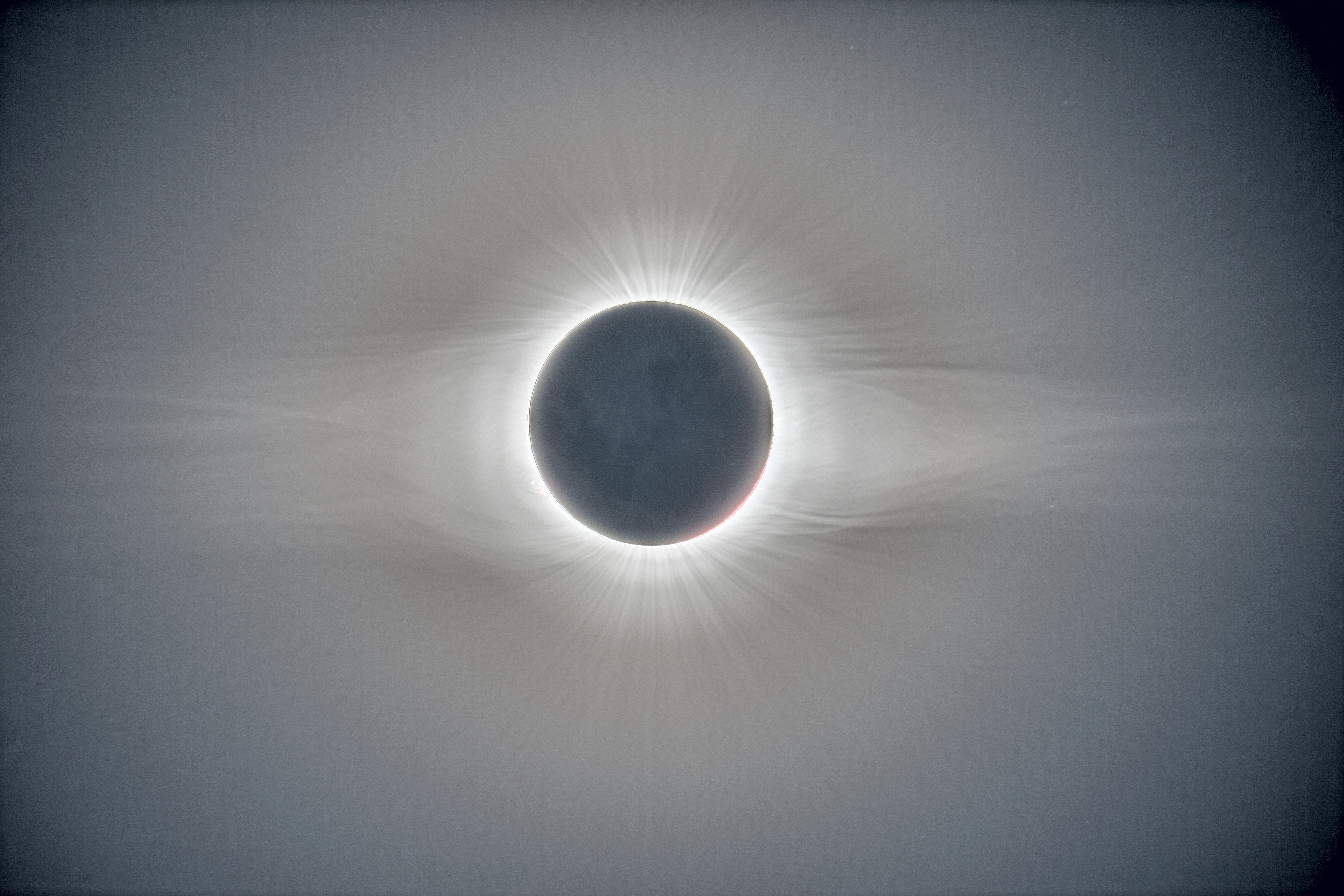 This image – combined of many exposures – captures 'totality' during the 2 July 2019 total solar eclipse, the moment that the Moon passes directly in front of the Sun from Earth's perspective, blocking out its light and allowing the Sun's extended atmosphere – the corona – to be seen. The processing of this image highlights the intricate detail of the corona, its structures shaped by the Sun's magnetic field. Some details of the lunar surface can also be seen. The image was created by the ESA-CESAR team observing the eclipse from ESO's La Silla Observatory in Chile, South America.